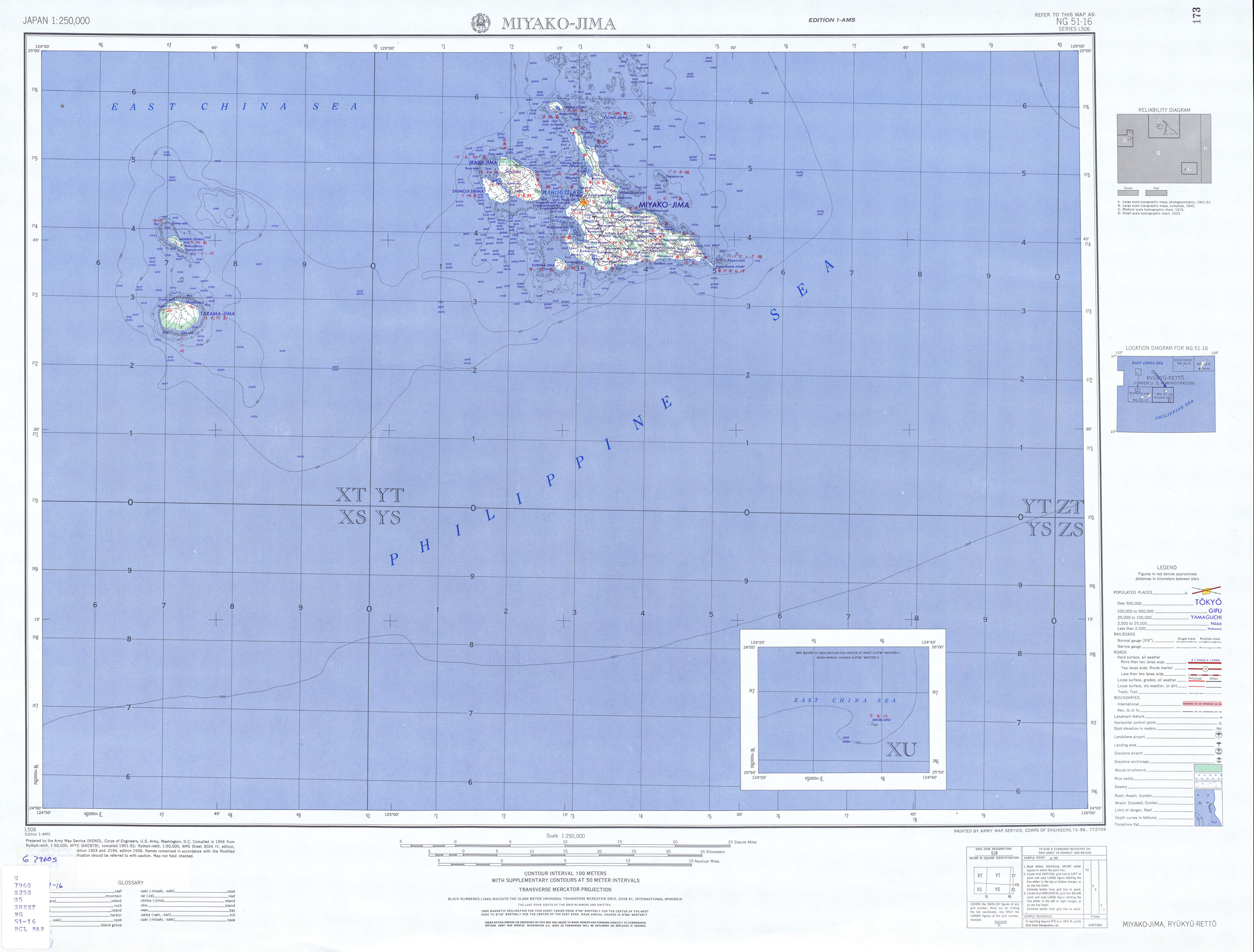 NG 51-16 Miyako-Jima [with inset map of Sekibi-Sho]